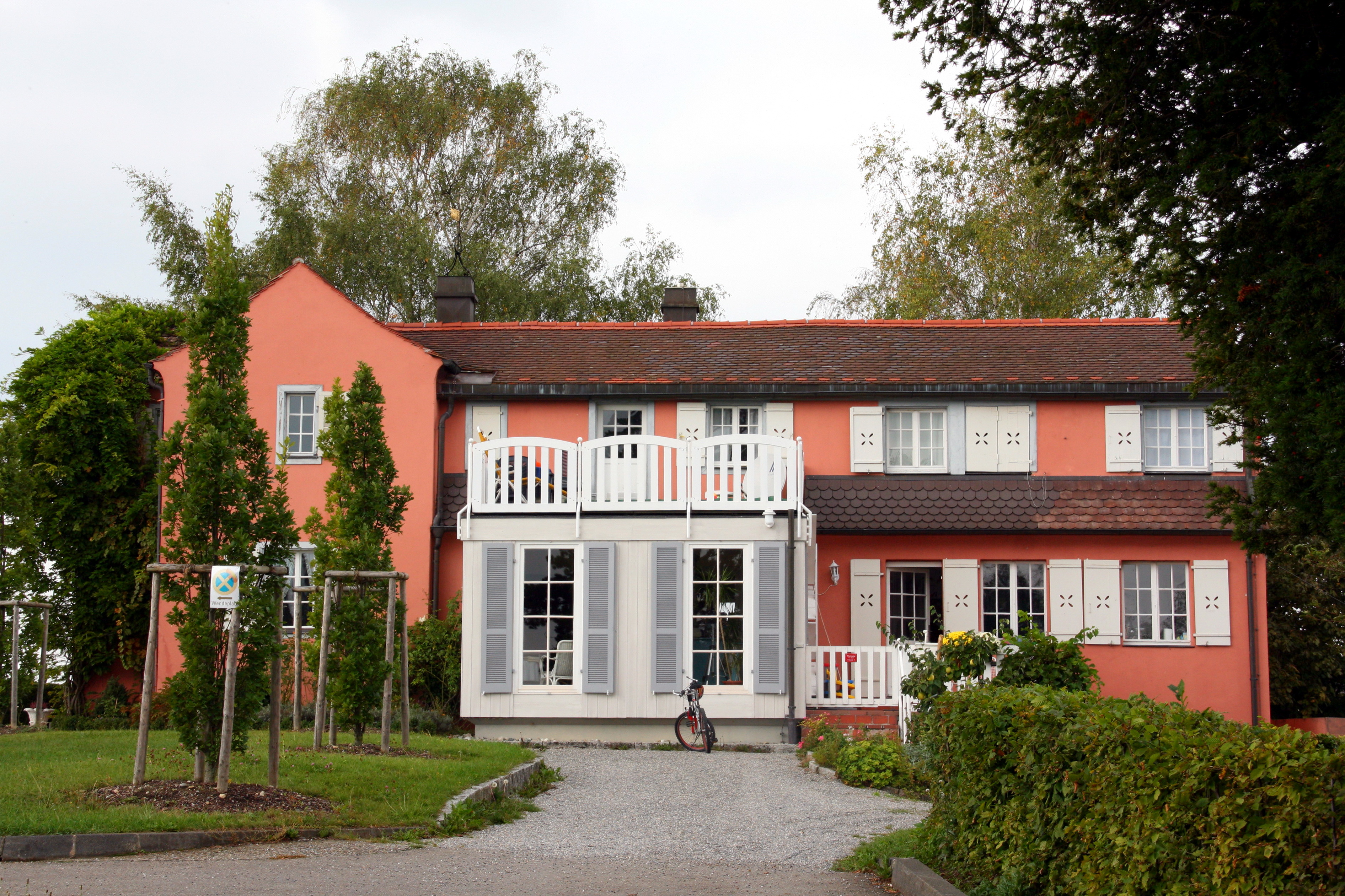 House of Annette von Droste-Hülshoff (Eastside)